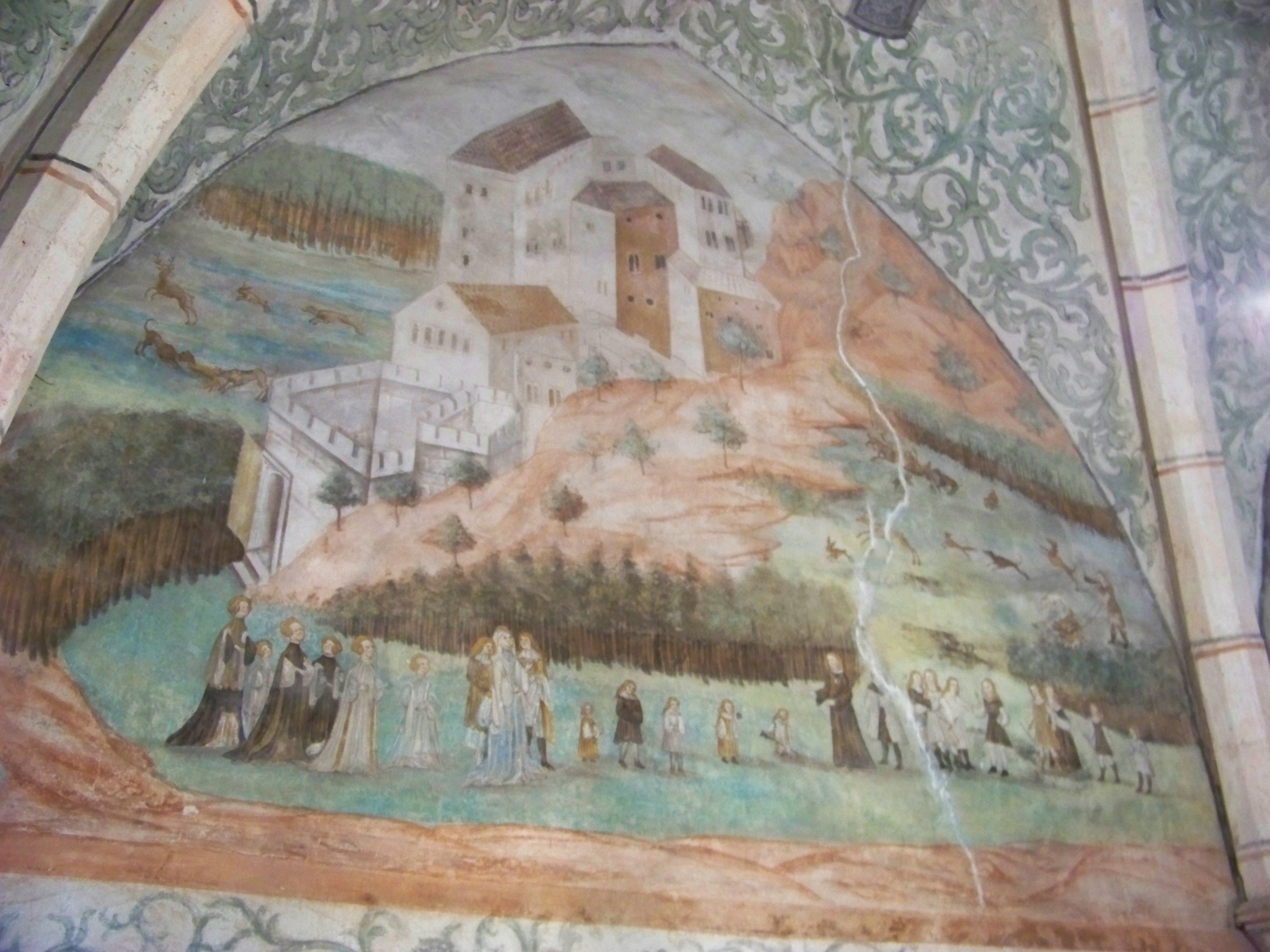 Houska Castle, Česká Lípa District, Liberec Region, the Czech Republic. A Green Room. A renaissance fresco. "A welcome of suite of Saint Ludmila". - Google Maps - Google Earth